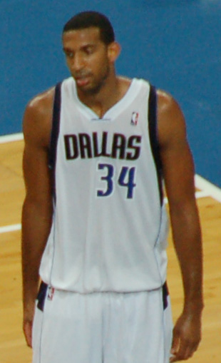 Brandan Wright with the Dallas Mavericks, October 2010.